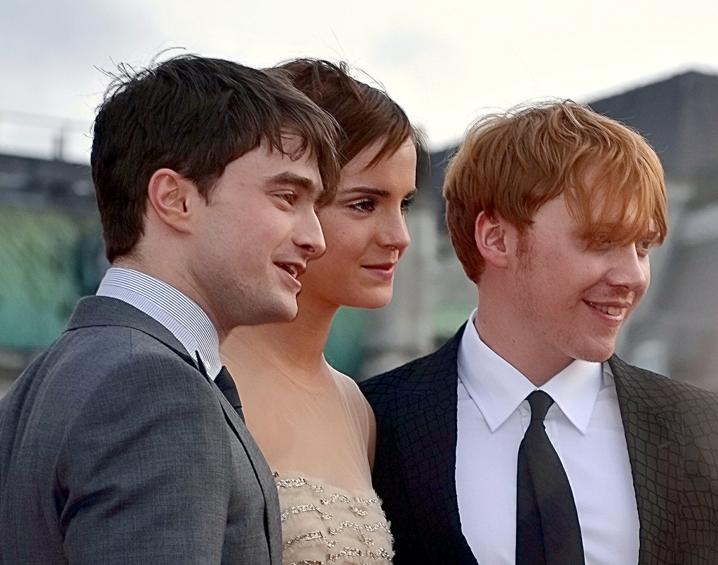 Daniel Radcliffe, Emma Watson & Rupert Grint (left to right) at the world premiere of Harry Potter & The Deathly Hallows Part 2 in London, England